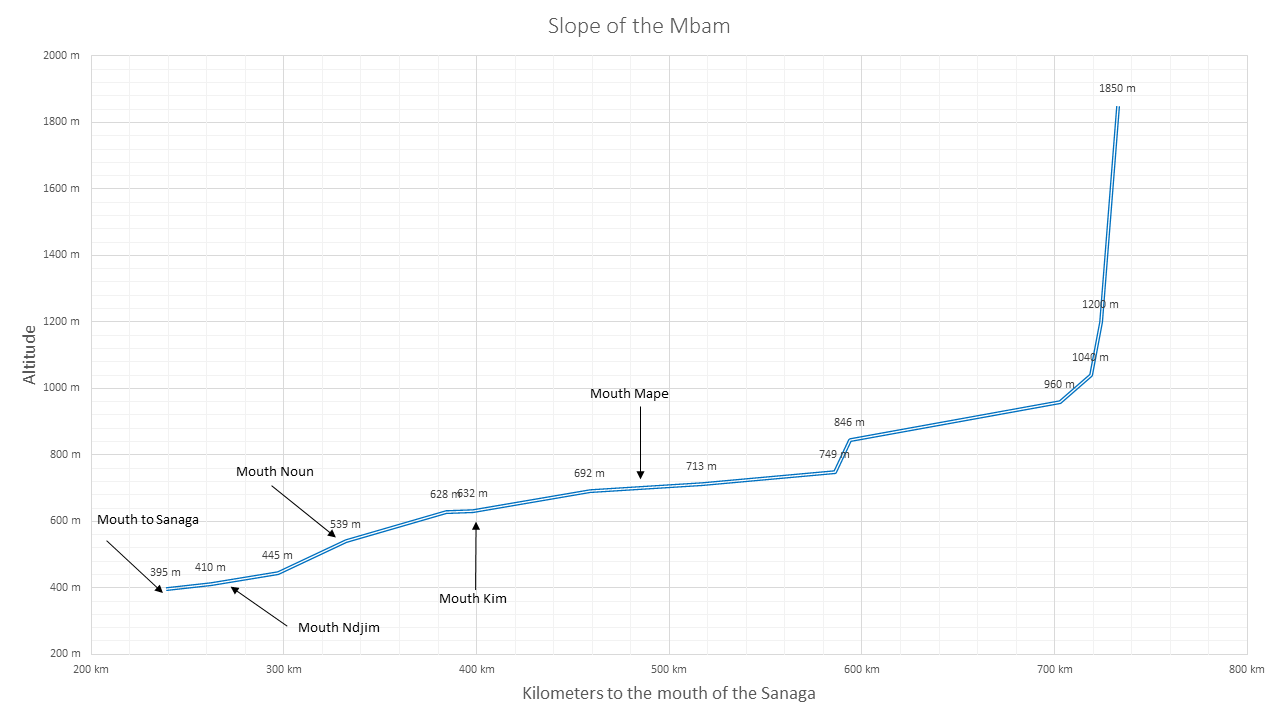 Slope of Mbam River; Data source * J. C. Olivry, Fleuves et rivières du Cameroun, collection « Monographies hydrologiques », no 9, ORSTOM, Paris, 1986